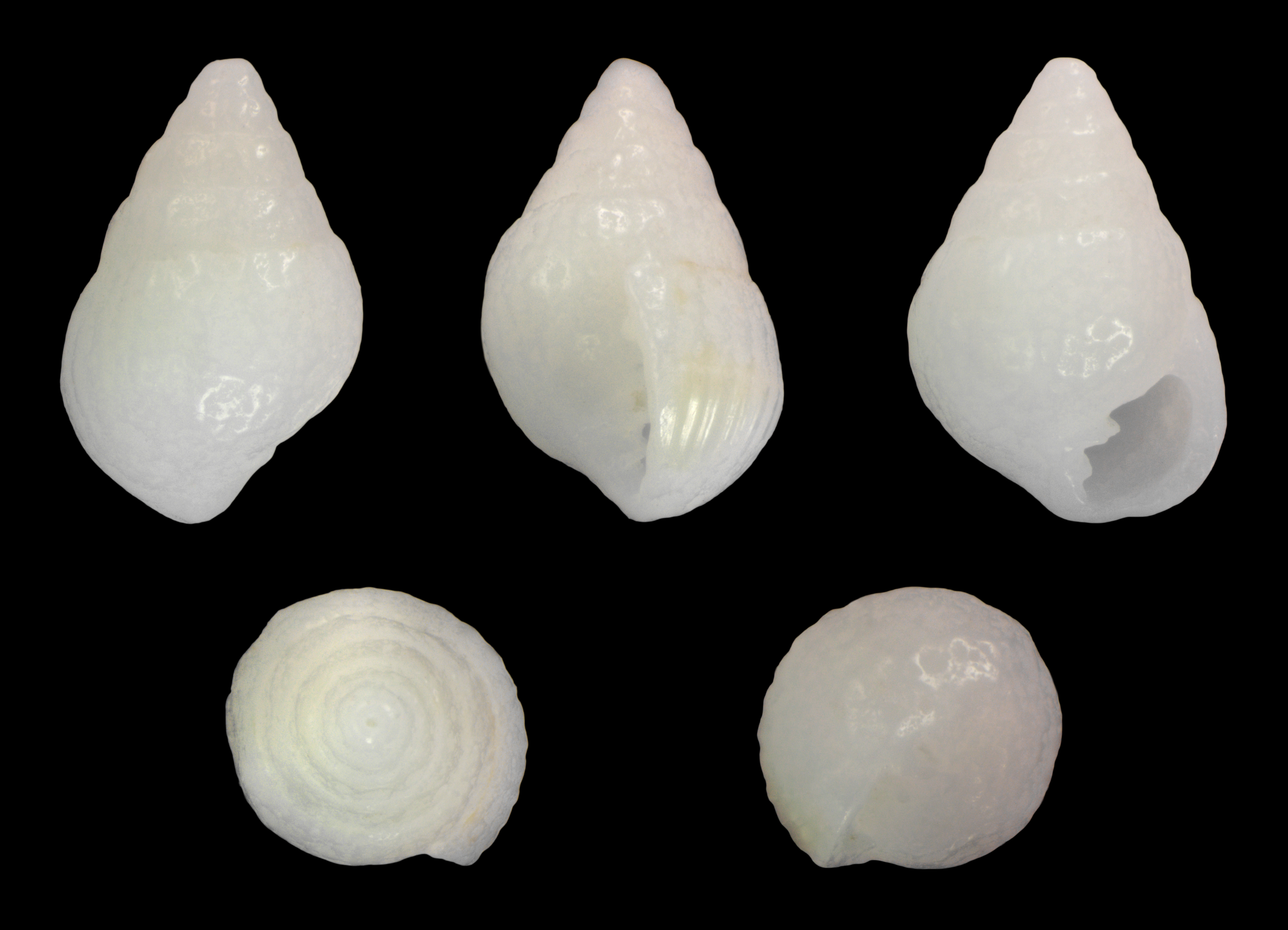 Otopleura nitida (Adams, 1854), juvenile, length 0.38 cm; Originating from Panglao Island, Philippines; Shell of own collection, therefore not geocoded.